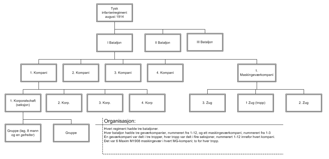 Norwegian language organization chart for a German infantry regiment in August 1914.